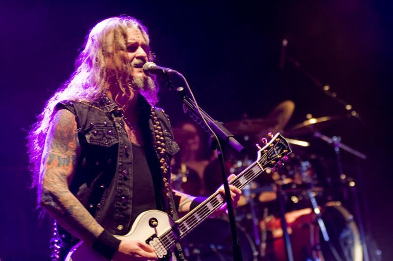 Jon Schaffer performing in 2010.